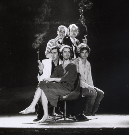 Poni Hoax official Photo